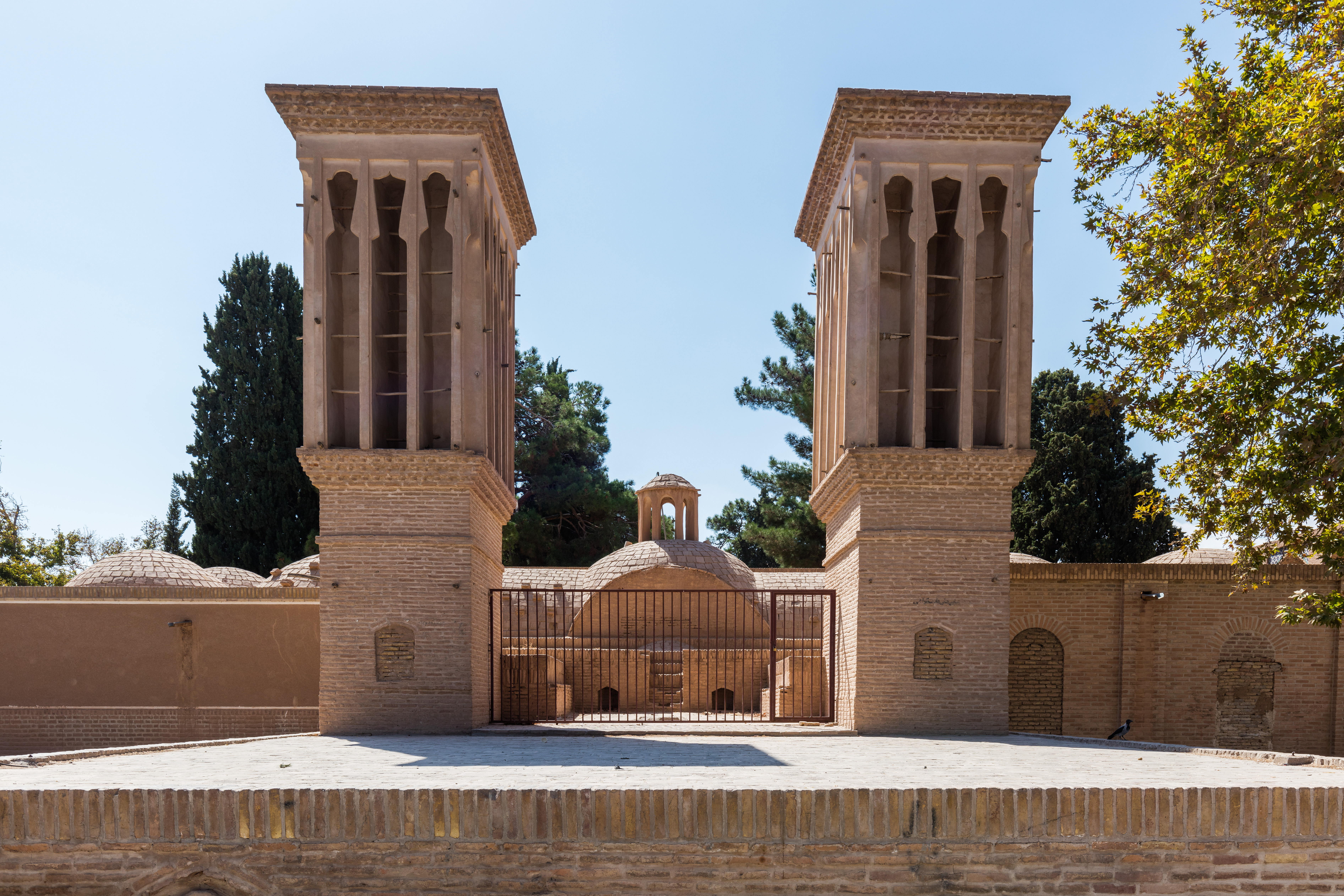 Shah Nematollah Vali Shrine, Mahan, Iran